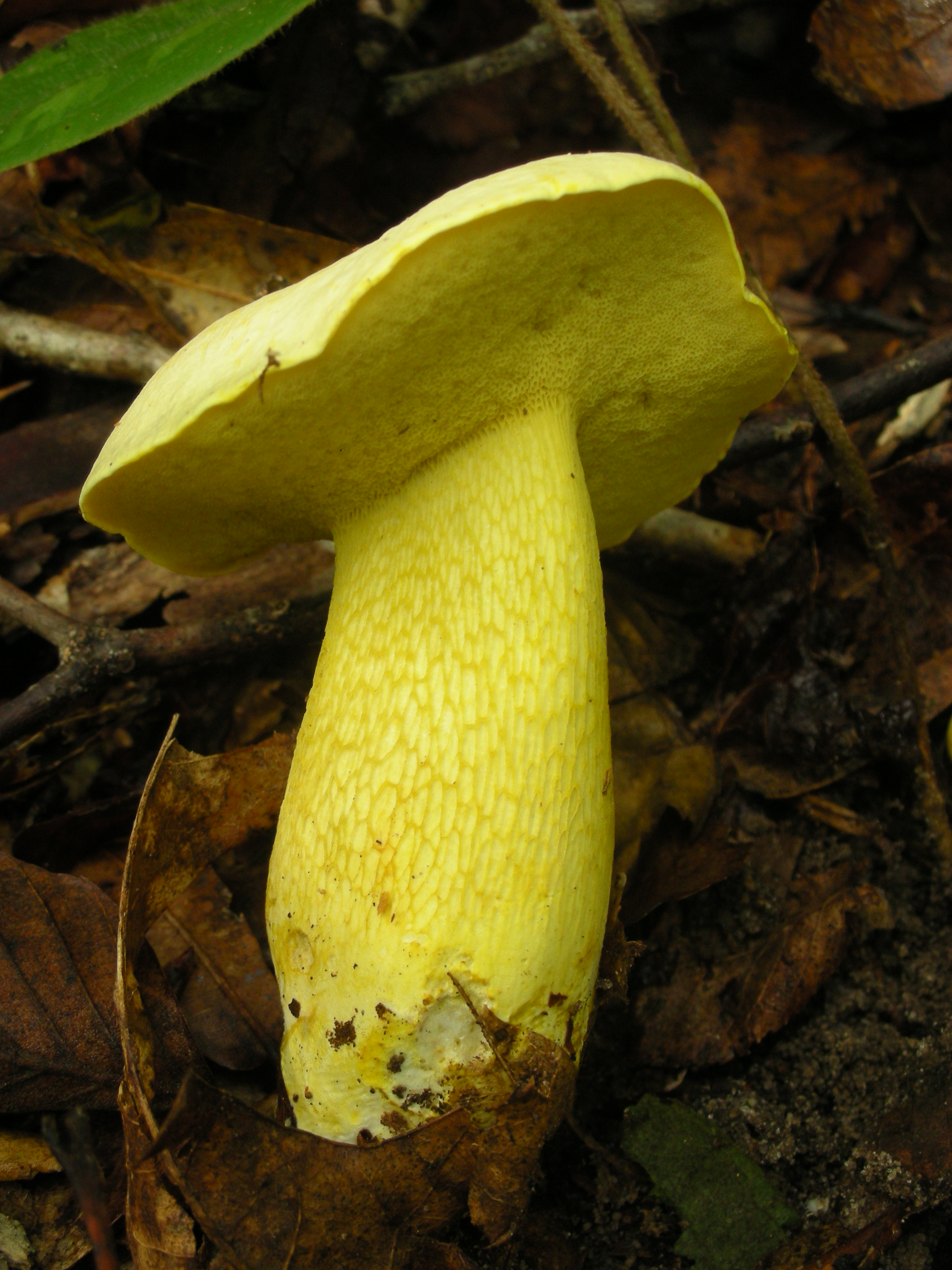 Retiboletus ornatipes (Peck) Binder & Bresinsky Location: Big Thicket, Polk Co., Texas, USA For more information about this, see the observation page at Mushroom Observer.